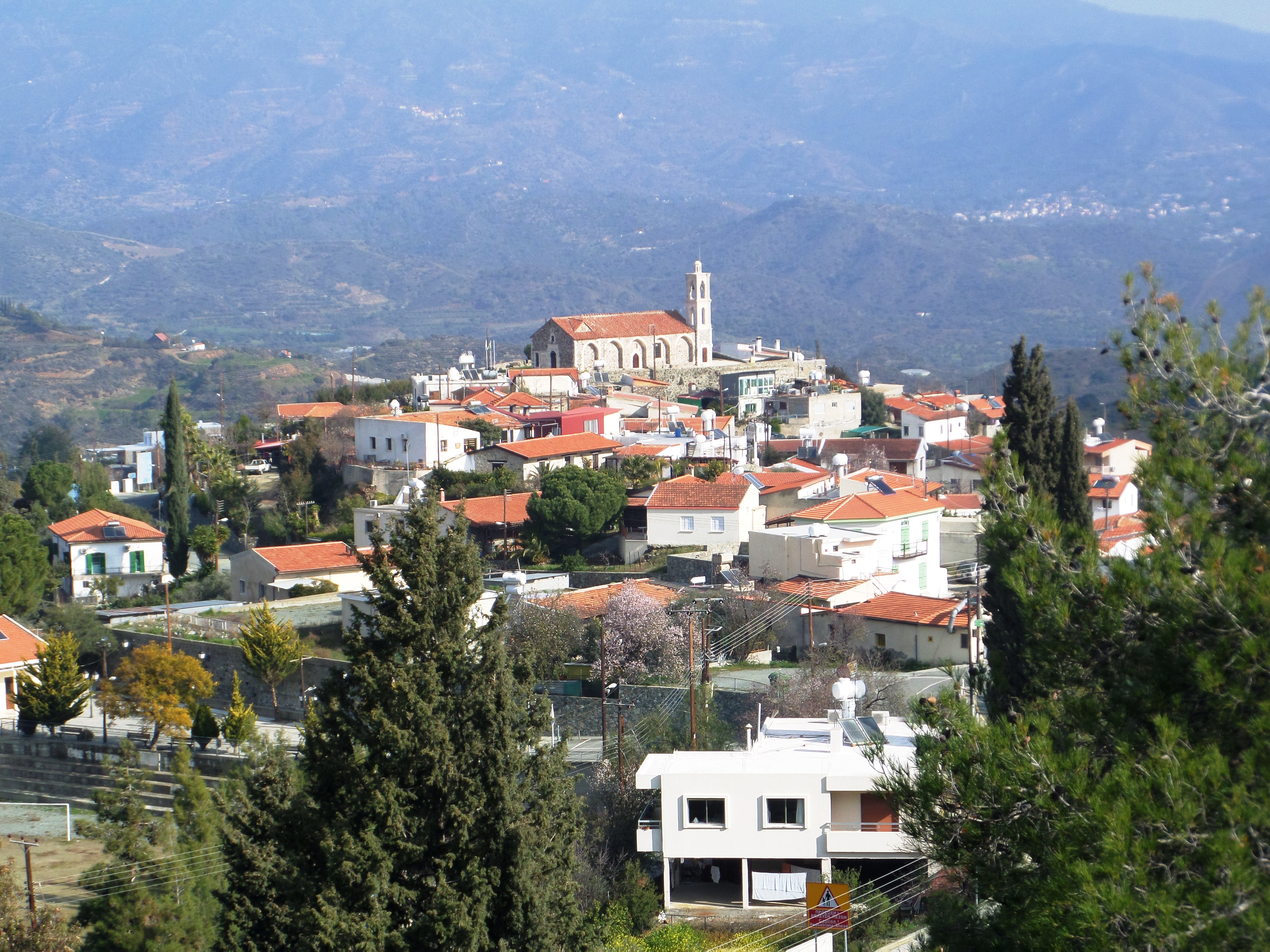 View of Kellaki.